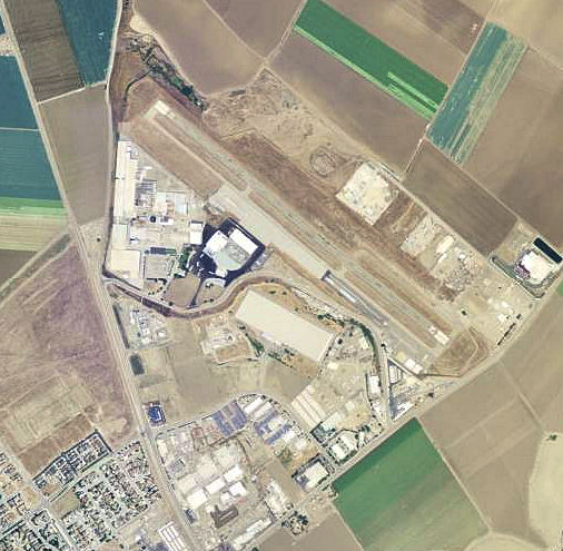 USGS digital orthophoto of Mesa Del Rey Airport in California